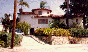 Foto de Beth Sarim Hoy